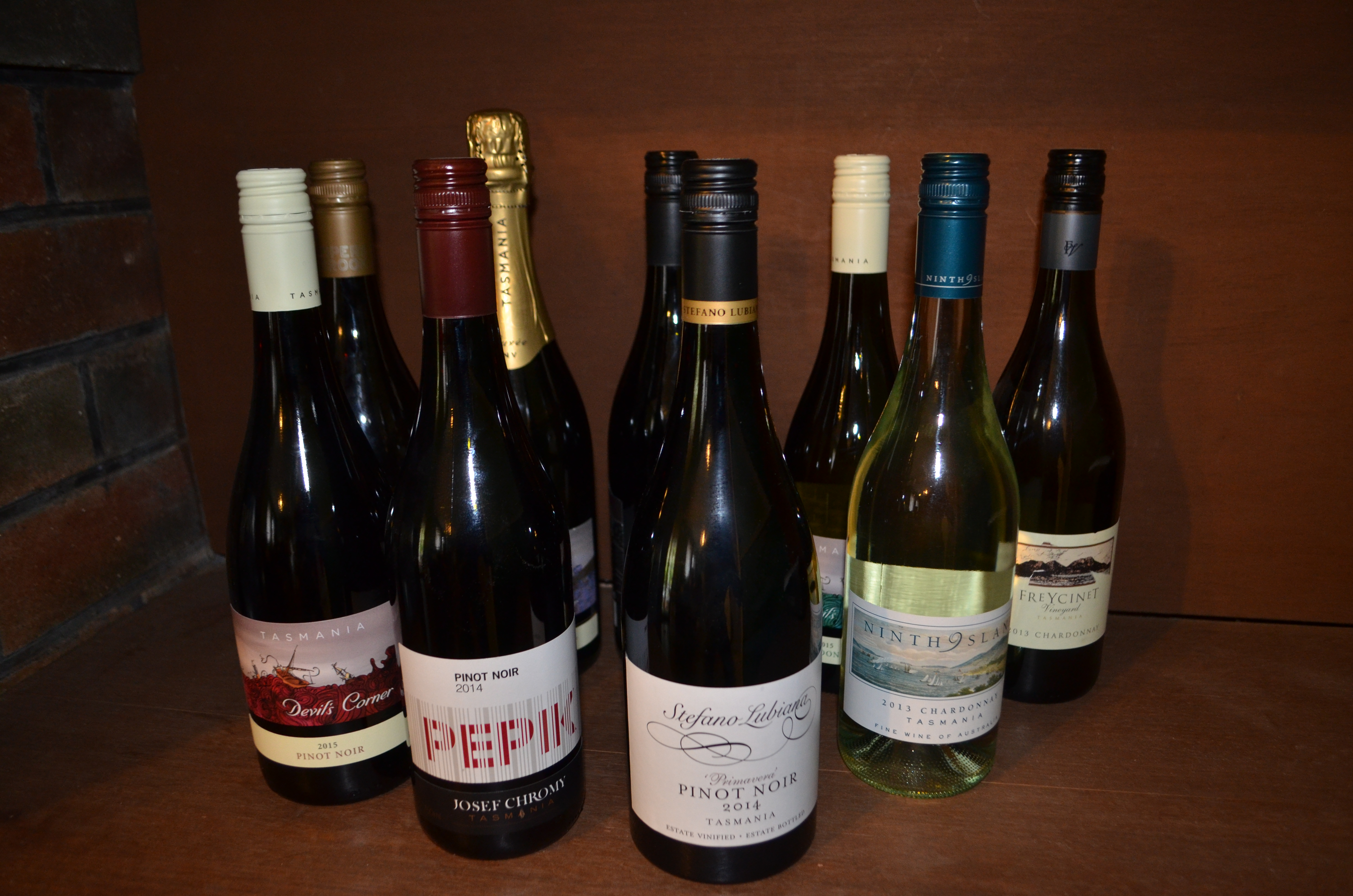 Hawthorn Lodge promotes Tasmanian wines to guests